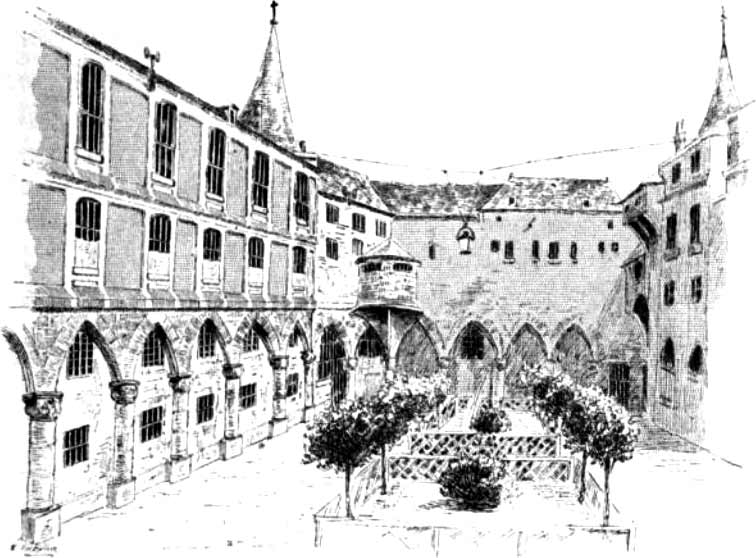 The Men's Yard in the Conciergerie Prison in Paris, France.